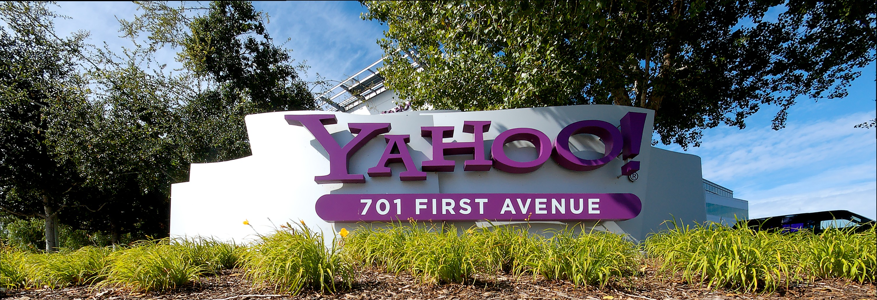 Yahoo 701 First Avenue